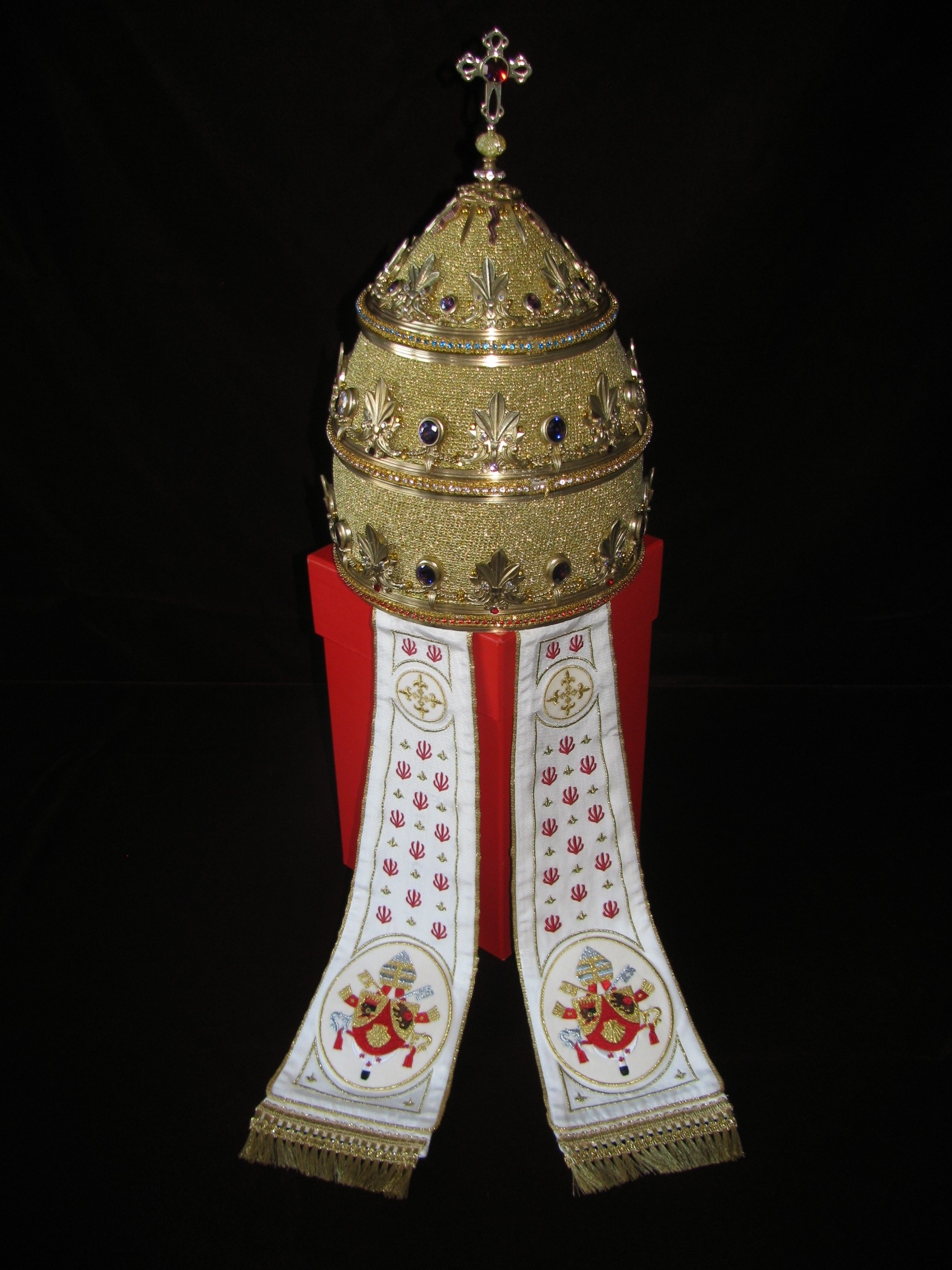 Tiara of Pope Benedict XVI, given to him on 25th of May 2011